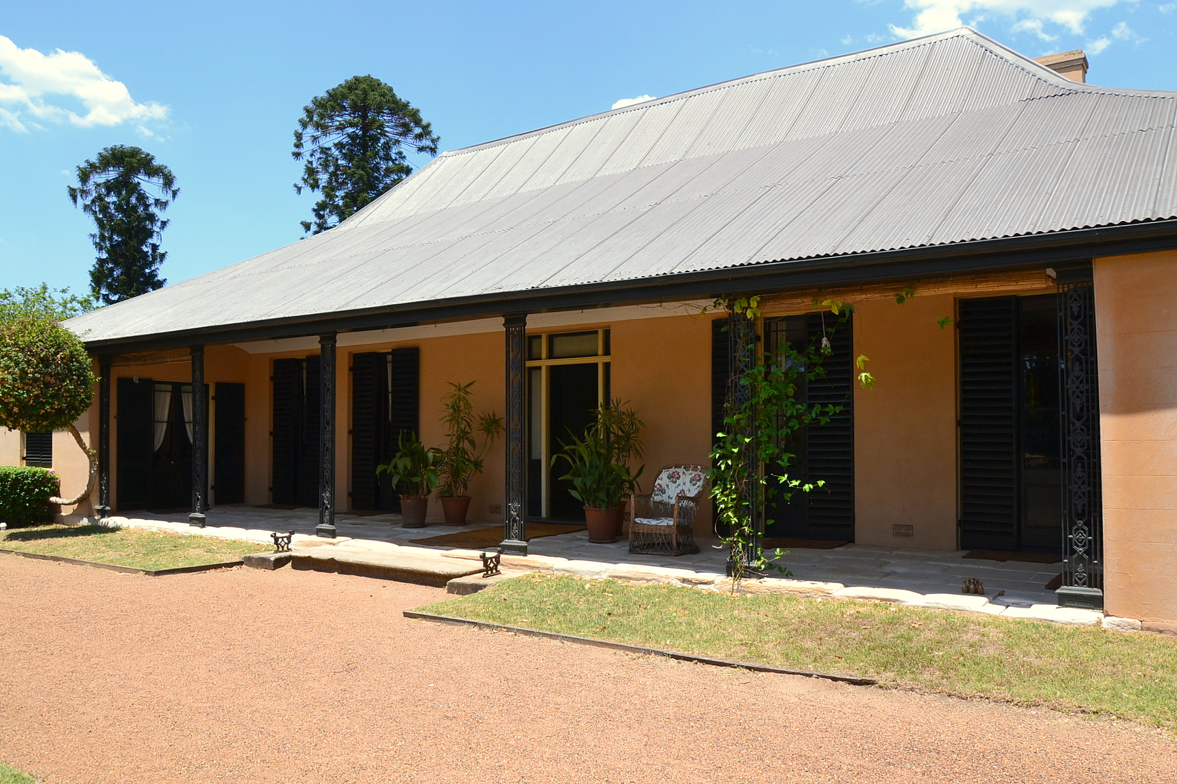 Elizabeth Farm, Harris Park, Sydney